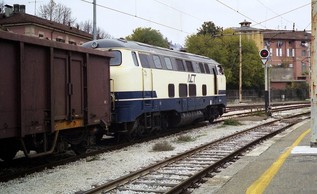 Italian private operator Azienda Consorziale Trasporti (ACT) purchased two of these locos from DB in Germany. Built by Krupp, originally Class V160 and were later reclassified as class 216 albeiit with a different body design to the majority of the class built later. 1900.007 was in fact 216.007 and as seen here, retained the familiar DB turquoise and cream livery. Employed on freight duties, ownership is now Ferrovie Emilia Romagna (FER) following the merging of smaller private operators in the same region of Italy. Photo taken on 12 November 2003 at Reggio Emilia where the private system joins up with the main Trenitalia network.